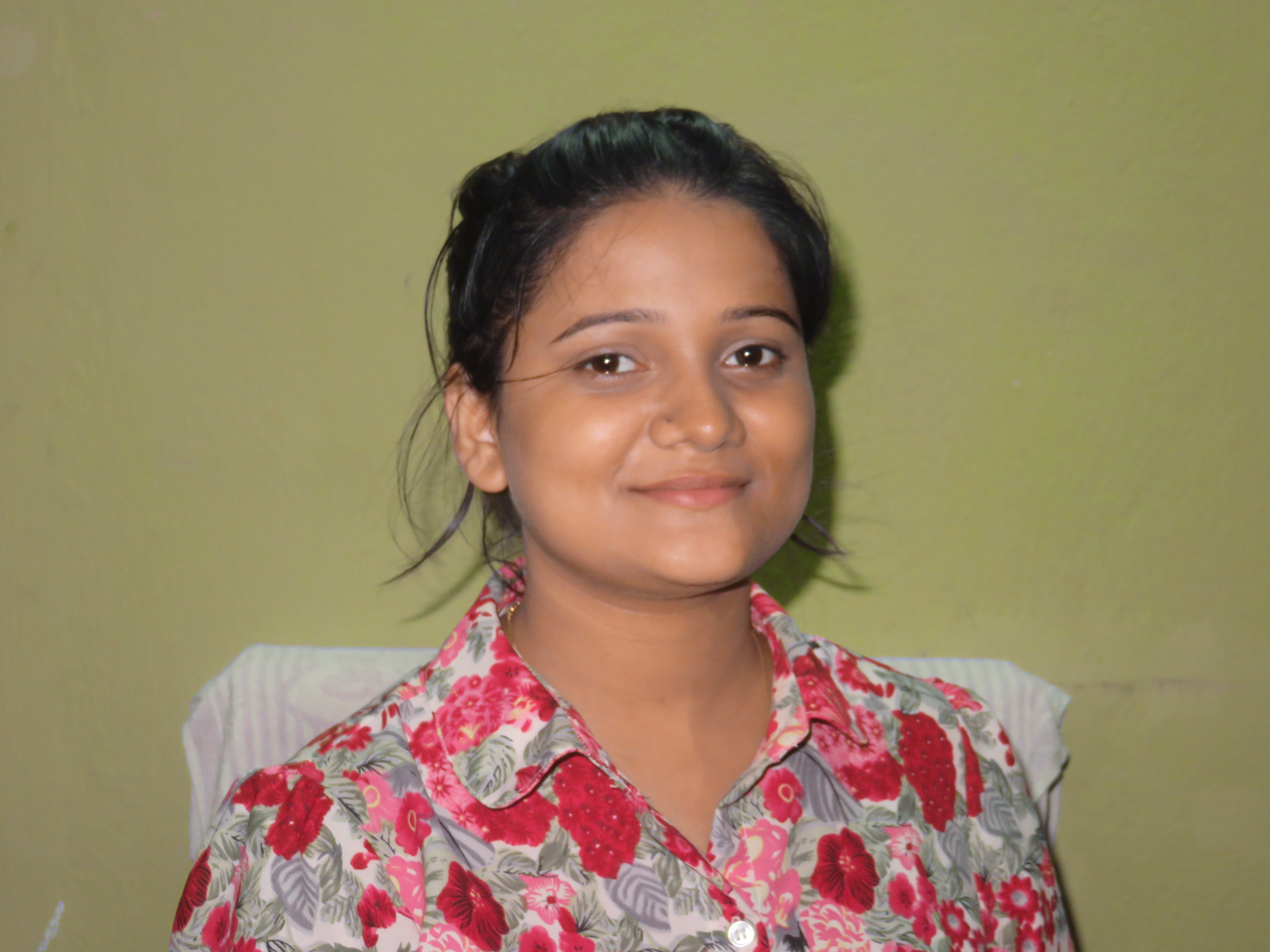 Barnali Hota is natively from Odisha and she has been awarded in different singing reality shows on television channels in India . She is well known for her playback singing in odia , Hindi and Bengali languages.